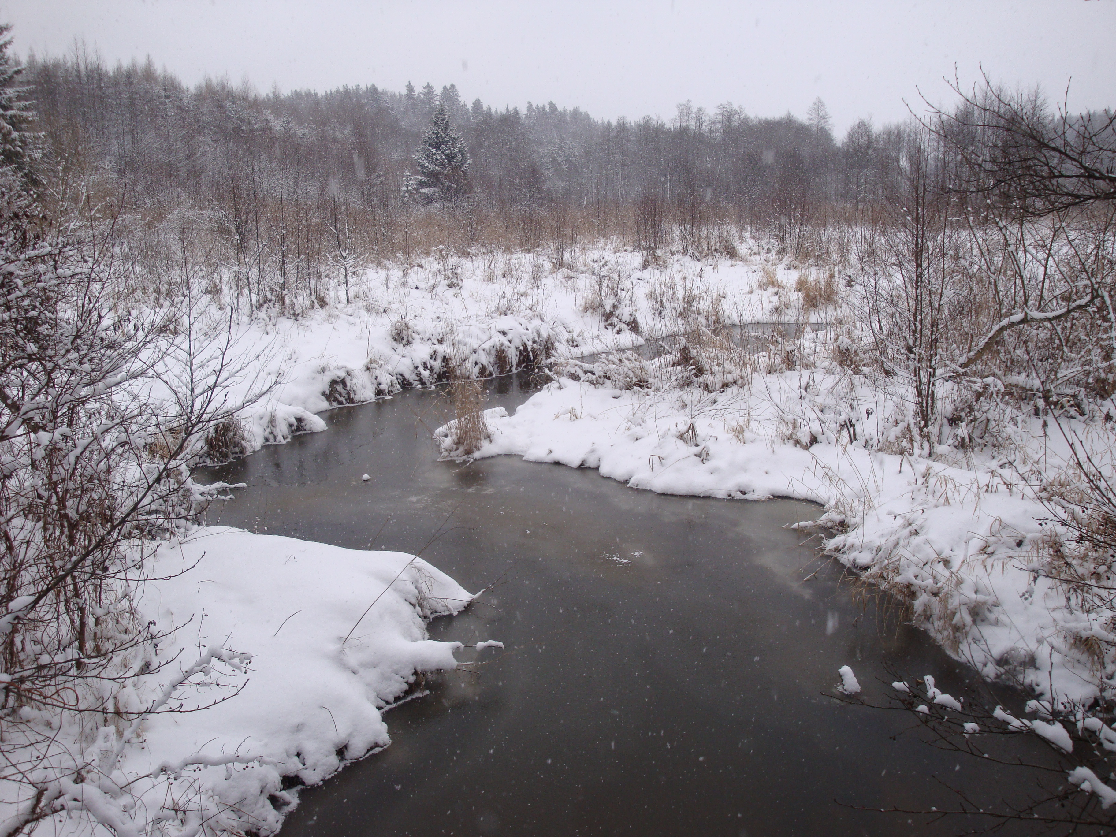 Bledzianka (Błędzianka) creek in Poland